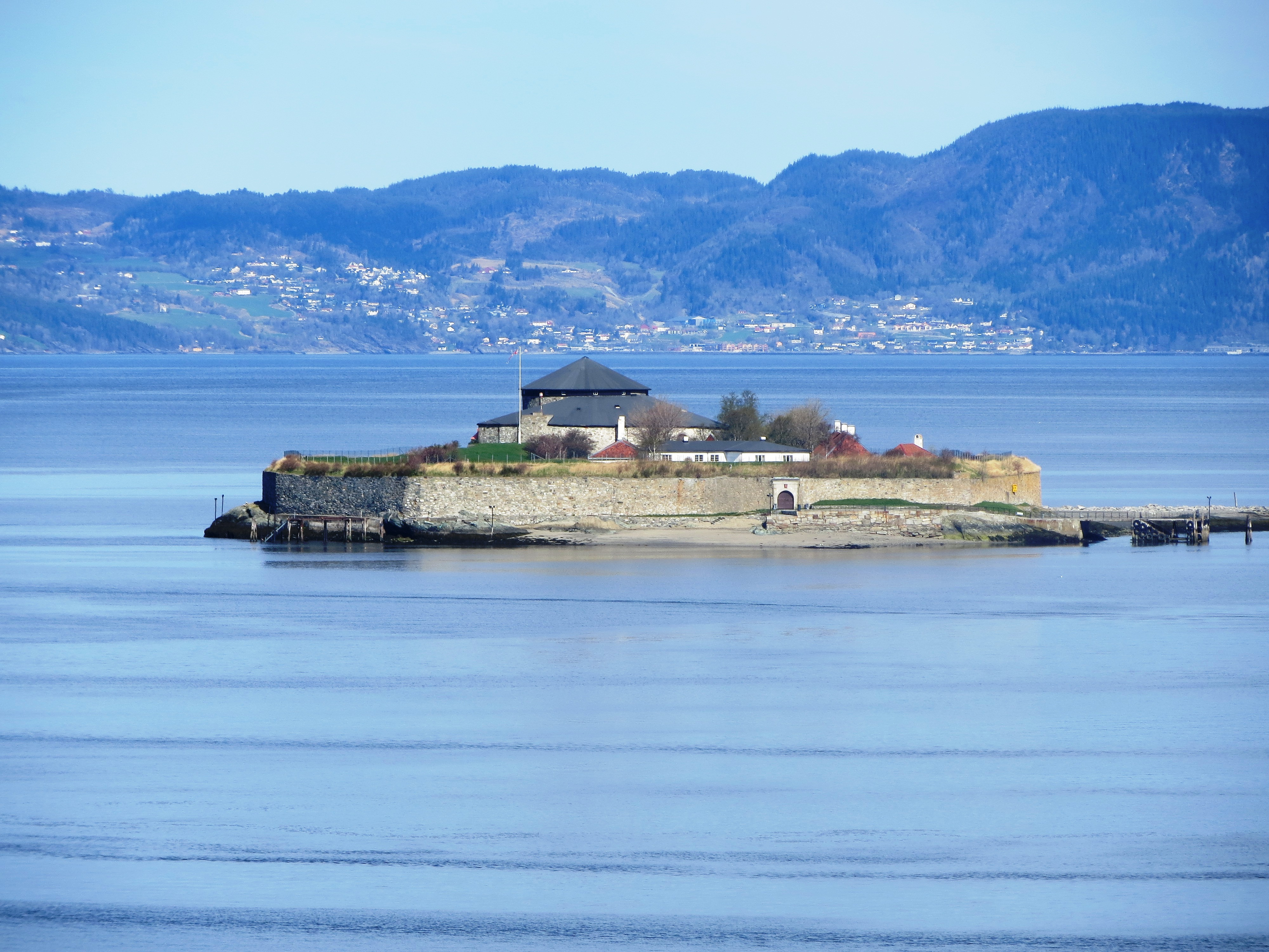 Image of Munkholmen fortress, in the Trondheim Fjord, Norway